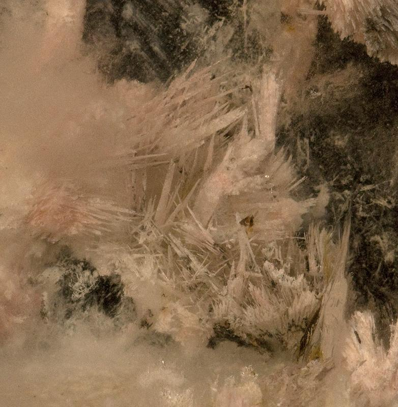 Montmorillonite, Quartz Locality: White Queen Mine, Hiriart Mountain (Heriart; Heriot; Hiriat Hill), Pala District, San Diego County, California, USA (Locality at ) Size: large cabinet, 12.5 x 7.8 x 2.7 cm Quartz included by Montmorillonite (polished) A beautiful polished section of a large and unusually clear quartz crystal, showing delicate, individual sprays of montmorillonite within. The pale pink sprays are beautiful, unusual, and unique in this form to the mine. Considered a locality classic. Ex. William Larson Collection.